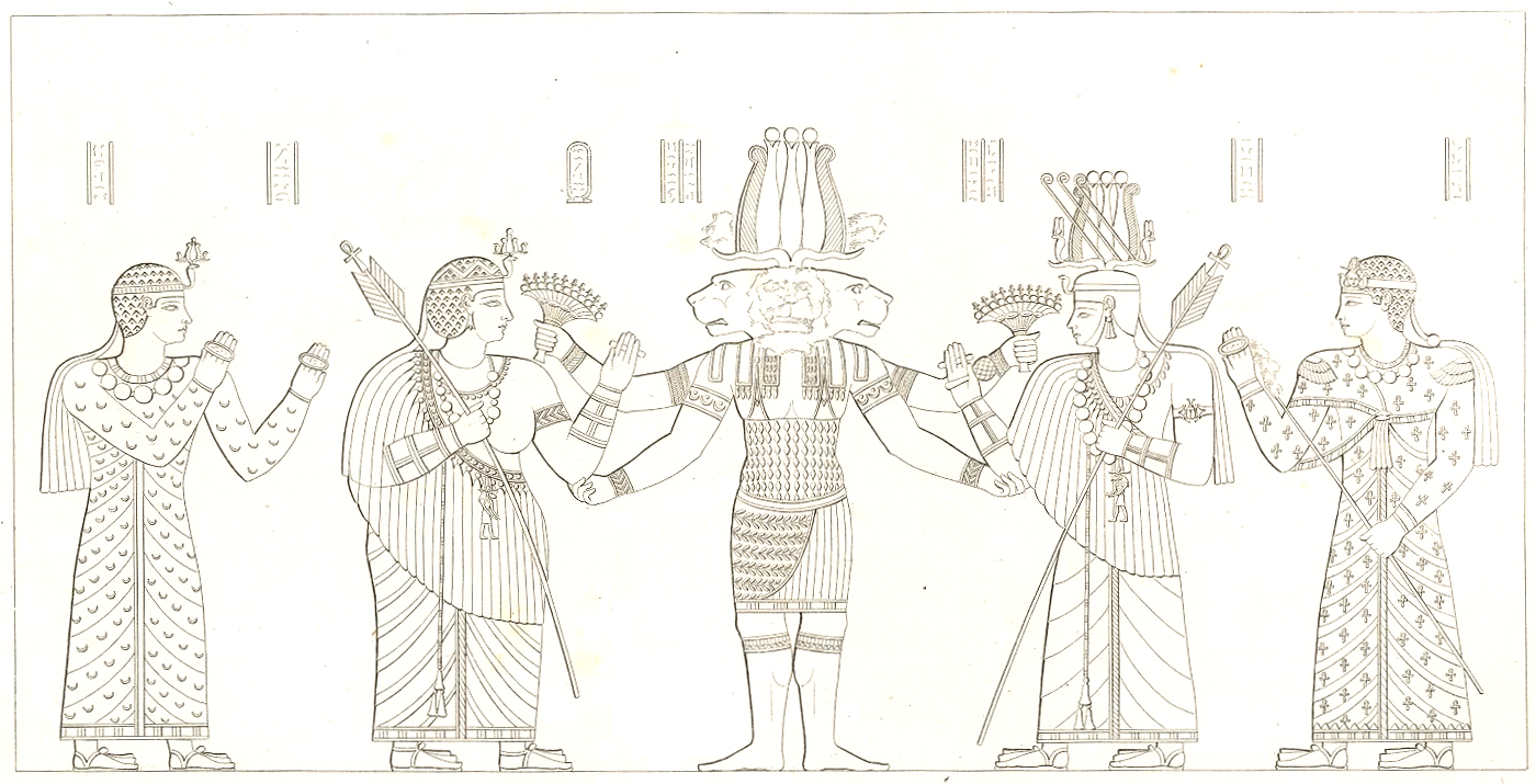 Relief depicting Natakamani and Amanitore and two princes approaching Apedemak (late first century BC, early first century AD).